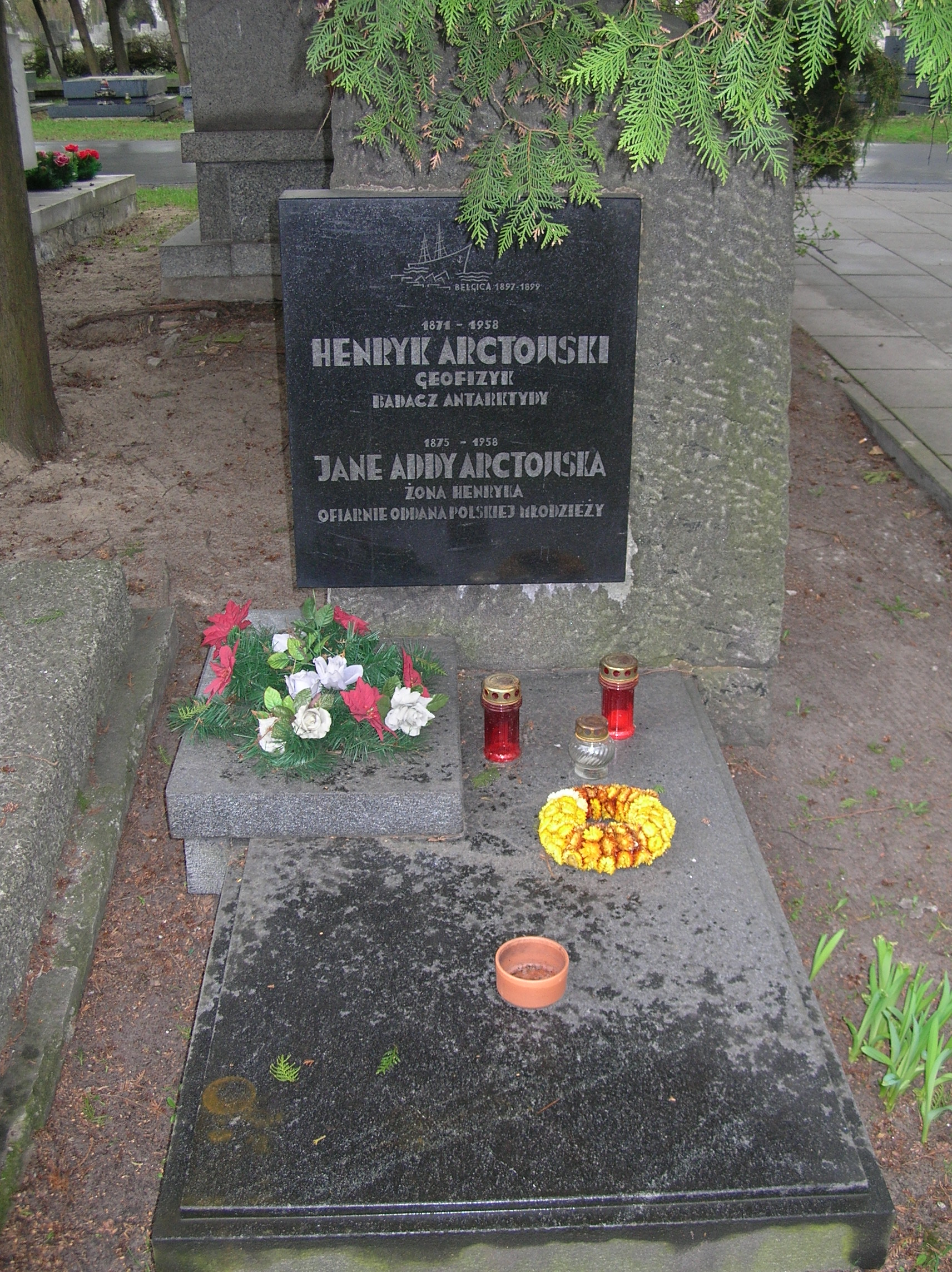 Tomb of Henryk Arctowski